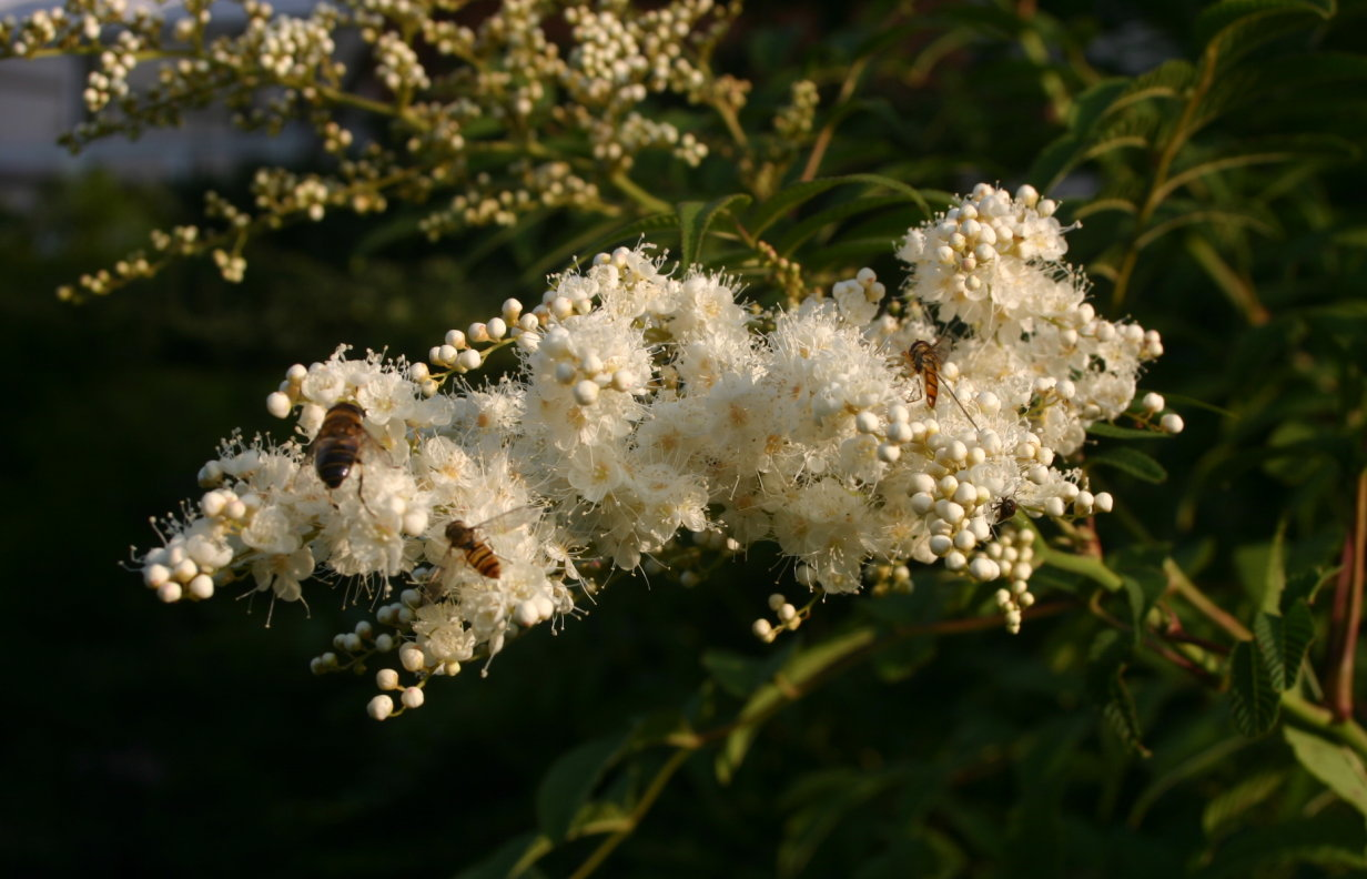 Sorbaria tomentosa: Flowers